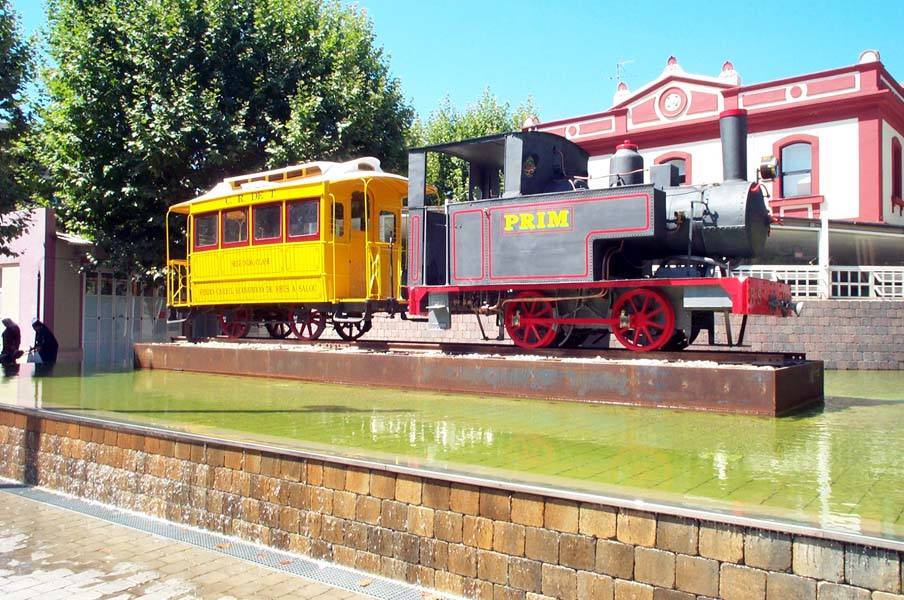 Salou, Costa Dorada, Spain, Beach Village received millions of tourist in the summer